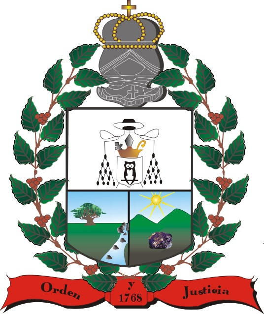 Coat of arms of Alpujarra-Tolima